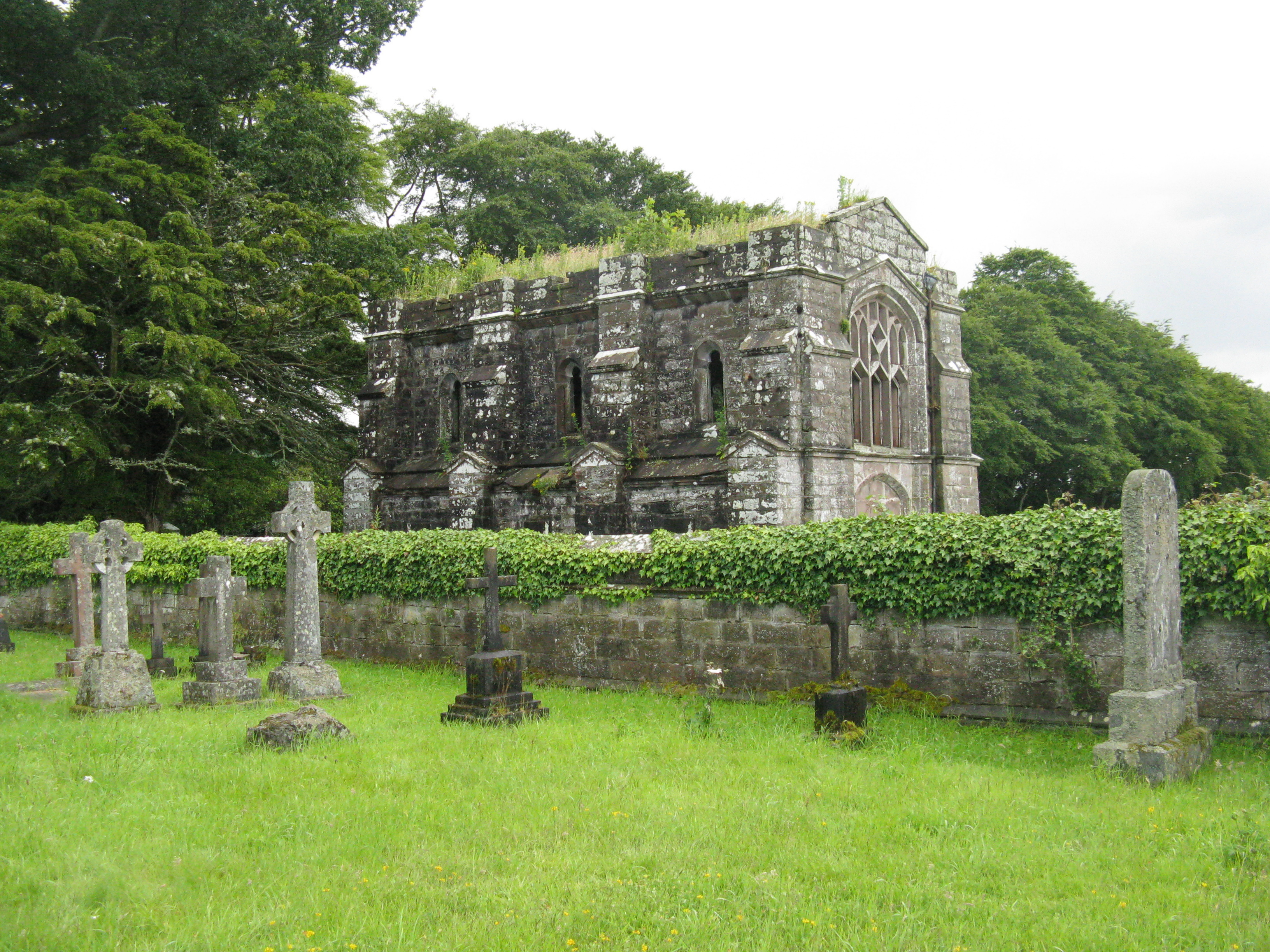 Mausoleum at Ochtertyre. A view from the adjacent burial ground